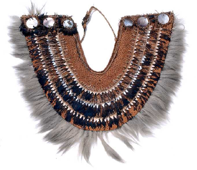 H000105 Breast ornament of plaited coconut fibre, decorated with black feathers, shark's teeth,and pearlshell discs and fringed with dog's hair. Collected from the Society Islands during Cook's voyages to the Pacific, 1768-1780.